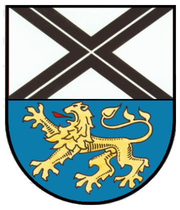 Coat of arms of Eppenrod